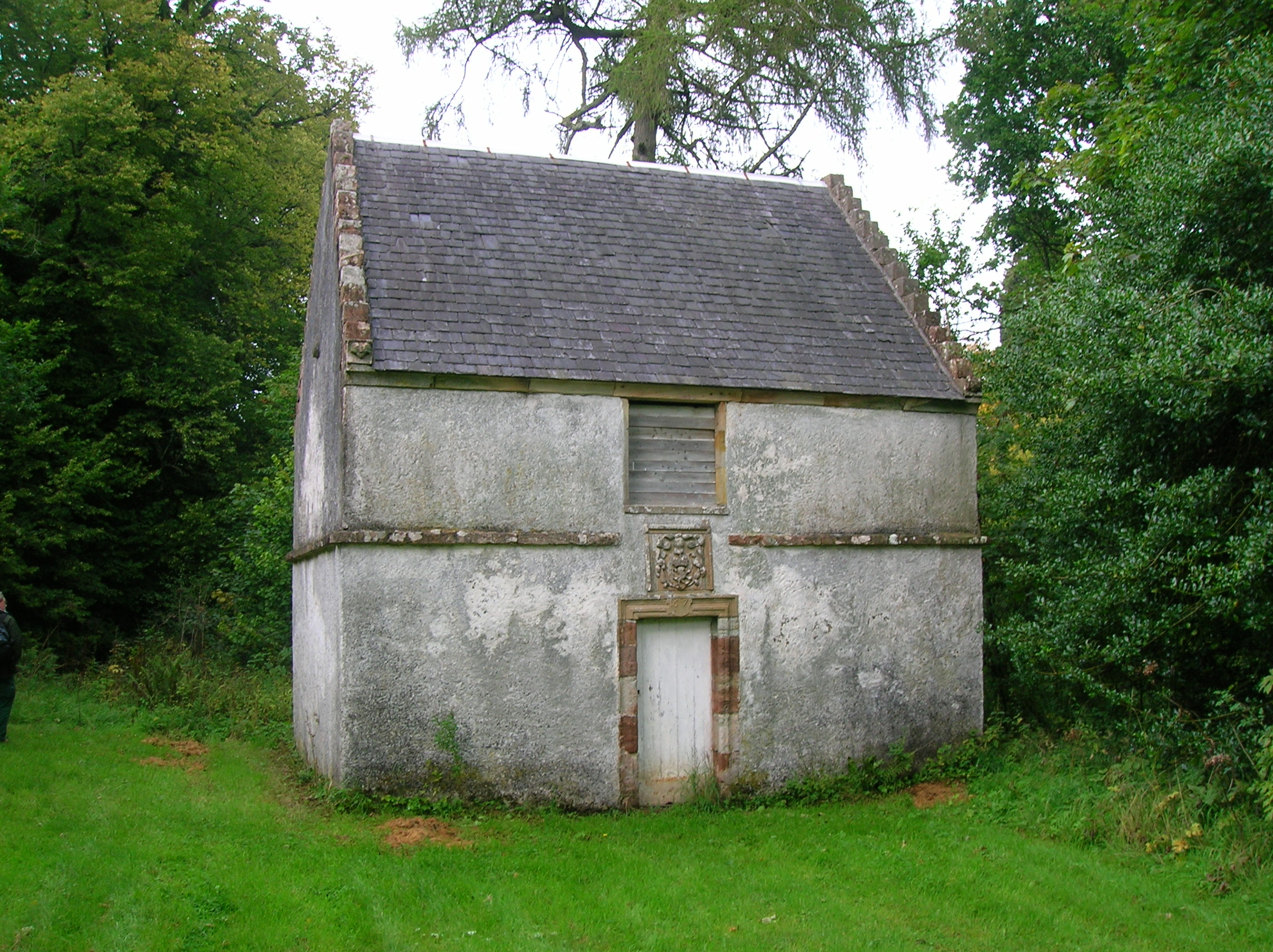 The old Dovecot or Doocot at Dumfries House, East Ayrshire, Scotland.